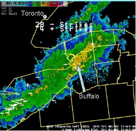 By 1900 UTC, cloud to ground lightning strikes were noted on the National Lightning Detection Network (NLDN) and reported by NWS Buffalo snow spotters during a Lake Effect Snow Storm occurring on the 12 to 13th of October 2006 over the Buffalo (NY) area. While thundersnows themselves are very uncommon (Curran, 1971), those that do occur typically only last up to 5 hours (Market, 2001). The NLDN depicted an average of fifteen cloud to ground strikes per hour between 0000 and 0900 UTC on Oct 13 with fourteen non- consecutive hours of lightning being reported. Here is the 0100 UTC KBUF WSR-88D weather radar composite reflectivity image and National Lightning Detection Network one-hour lightning display : + and - are the lightning strikes, the colors are the snow intensities.